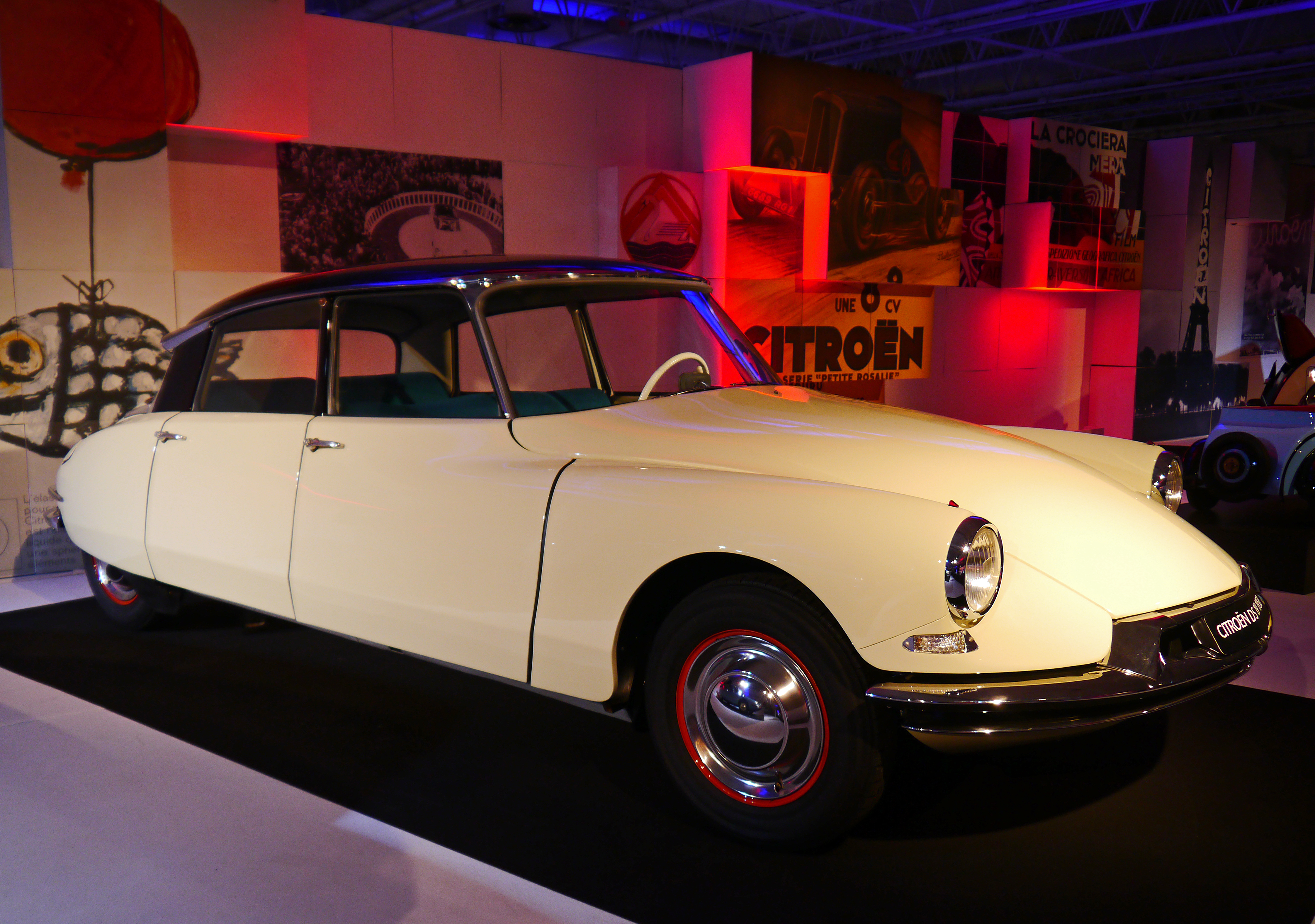 1958 Citroën DS 19. 4-cylinder 1911 cc engine (75 bhp) - its smallest engine.